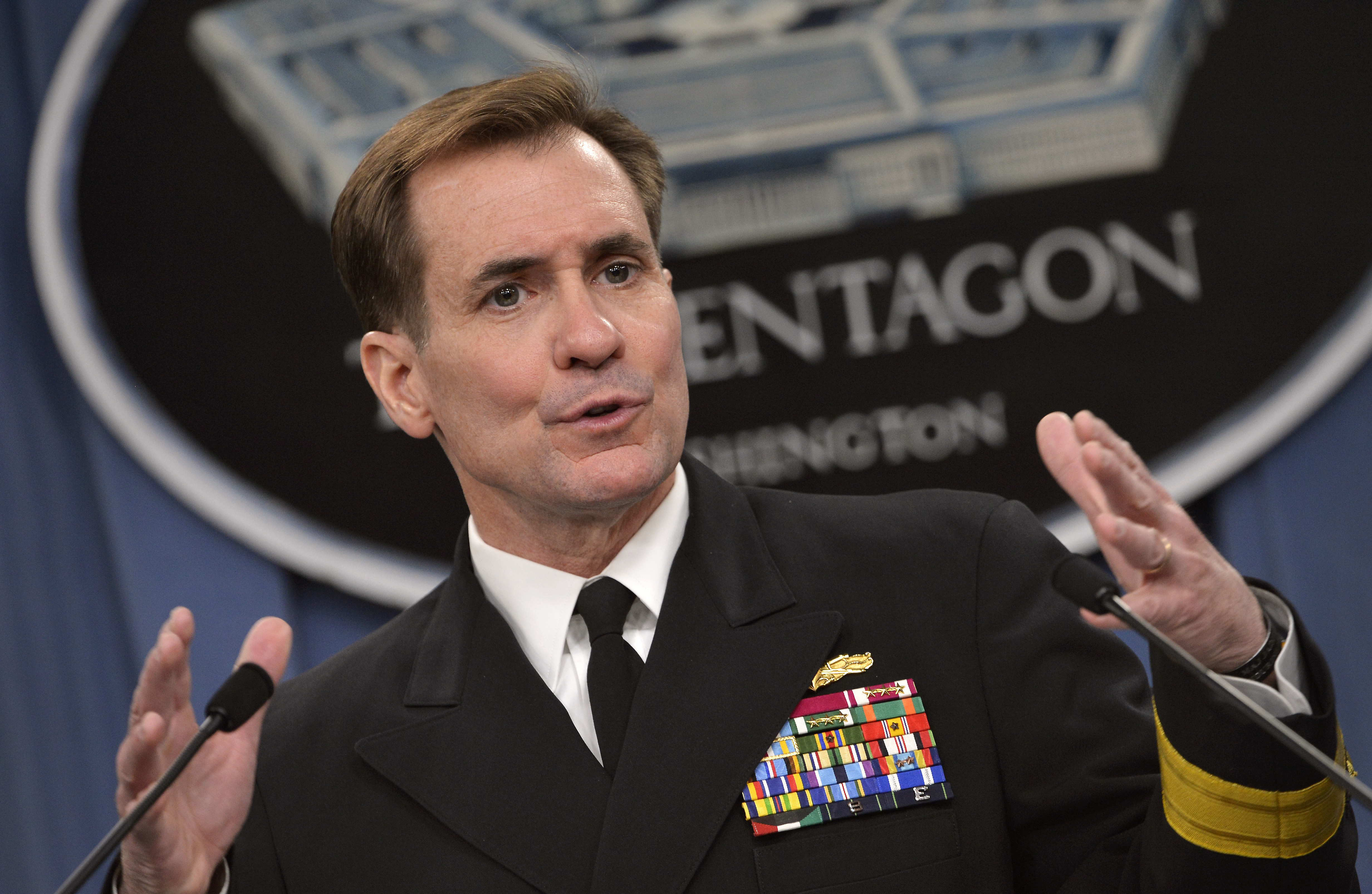 Pentagon Press Secretary Navy Rear Adm. John Kirby briefs reporters at the Pentagon, March 27, 2014. Kirby outlined the objectives of Defense Secretary Chuck Hagel's upcoming trip to Asia and answered questions on the situation in Ukraine and search efforts for missing Malaysia Airlines Flight 370